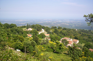 Casevecchie - commune in the Haute-Corse department of France